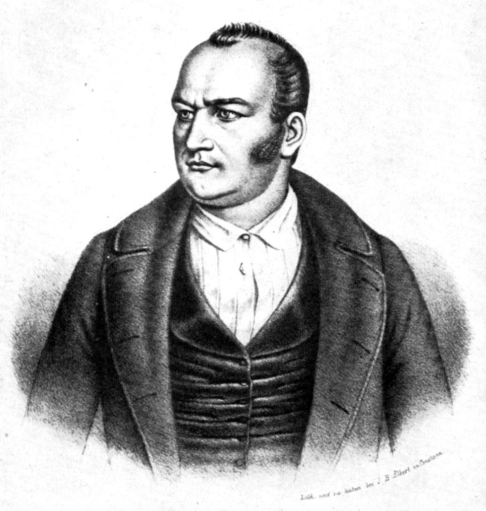 Joseph Fickler (1808-1865), German publisher and revolutionary. 19th Century lithograph